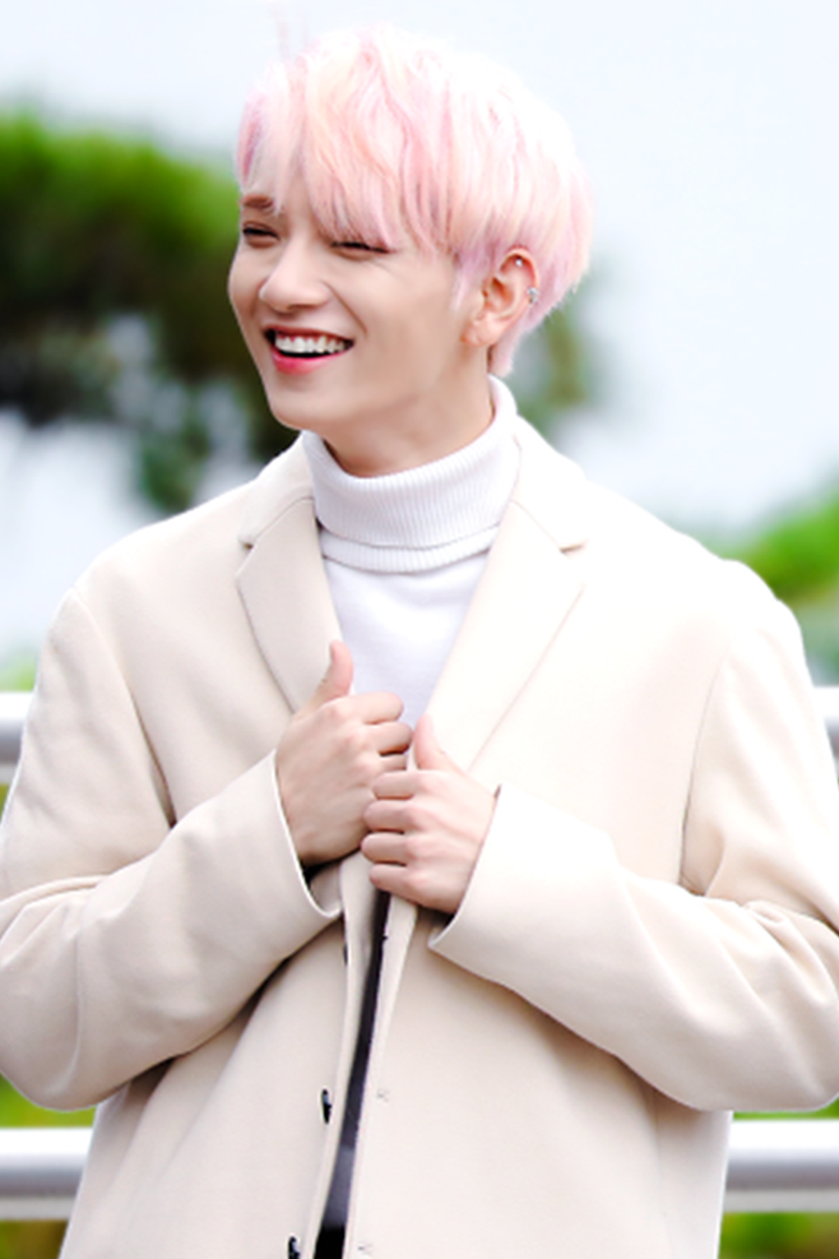 Joshua Hong during a fansign on November 10, 2017.